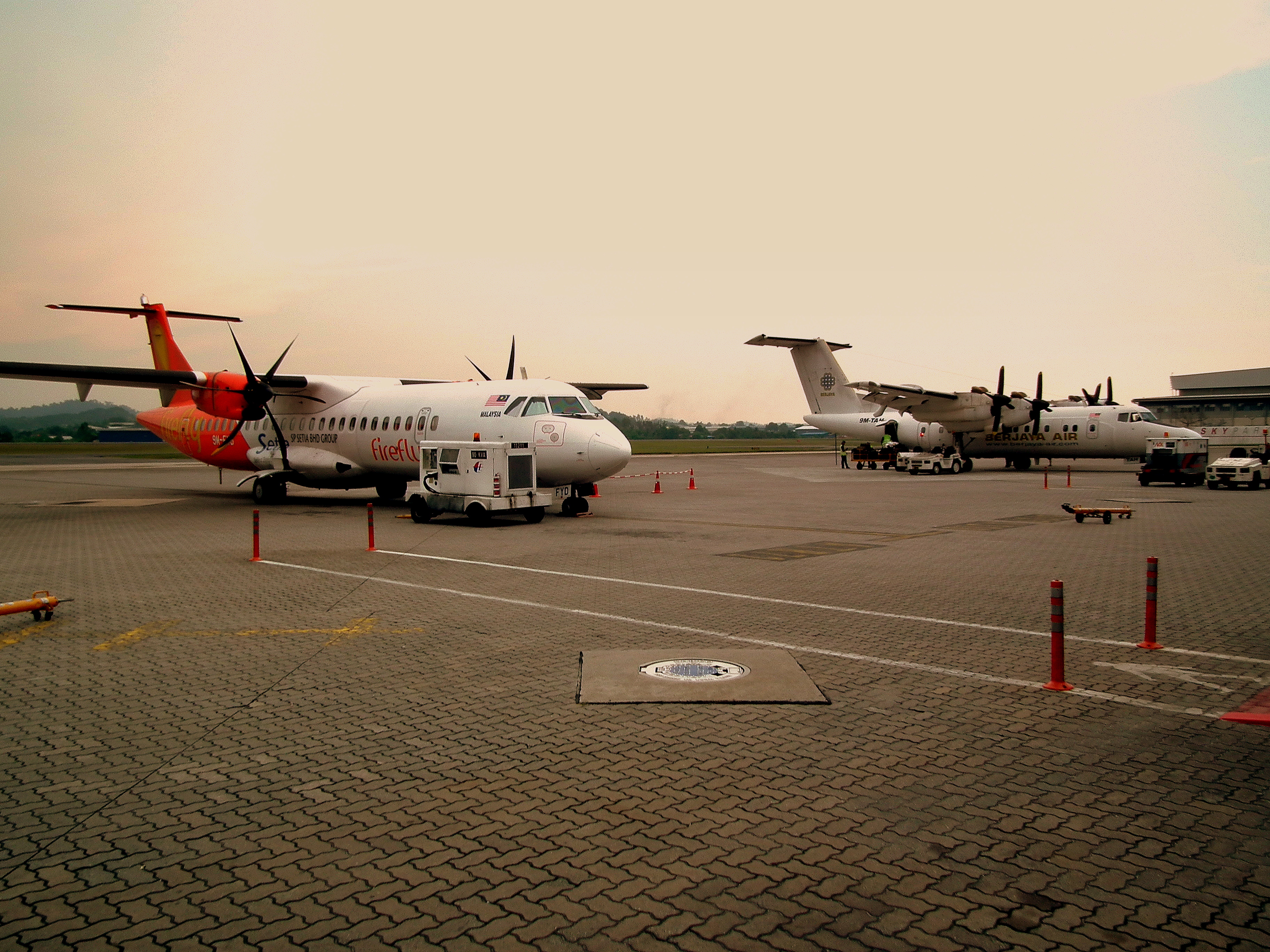 Firefly and Berjaya Air seen from the tarmac of the Subang Airport in Kuala Lumpur, Malaysia.